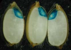 GUS reporter system. Rice embryo showing GUSPlus expression